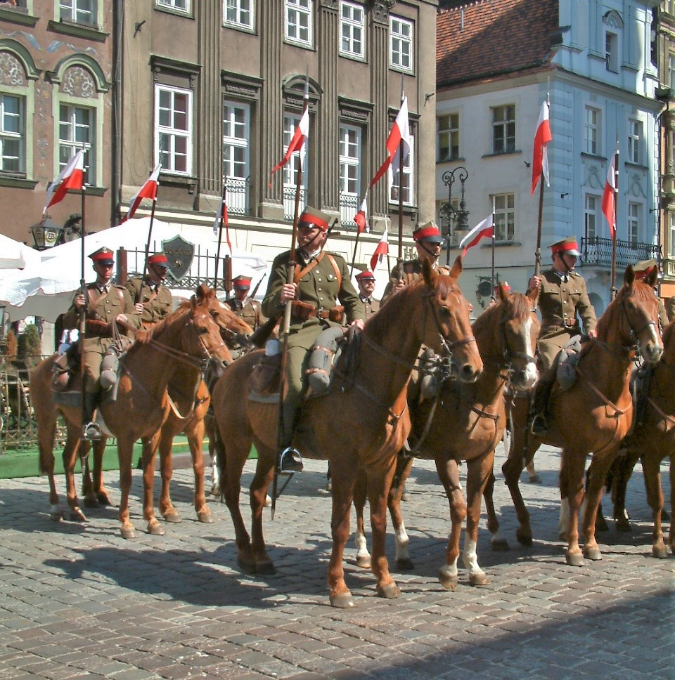 Reenactors in the uniform of the 15th Poznań Regiment of Uhlans